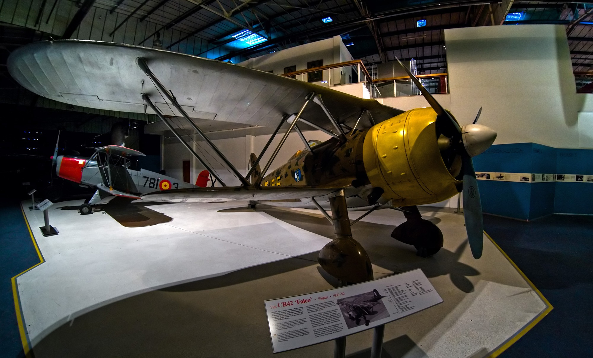 A Fiat CR.42 at the Royal Air Force Museum, London